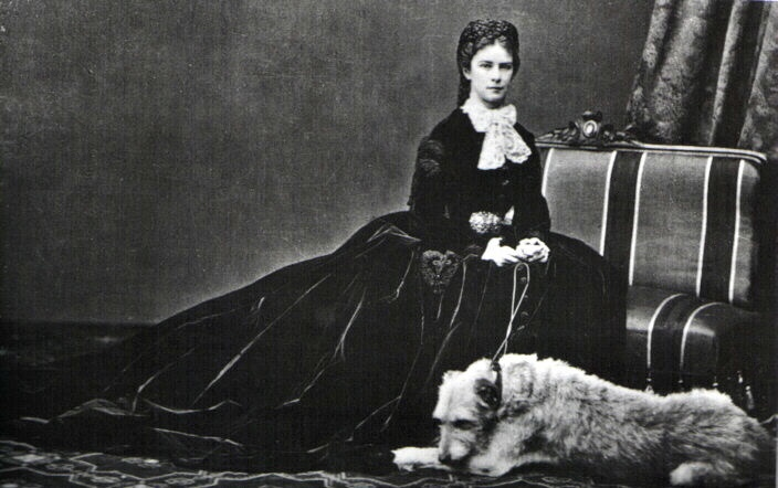 Old portrait of Empress Elisabeth of Austria with her favourite dog Shadow